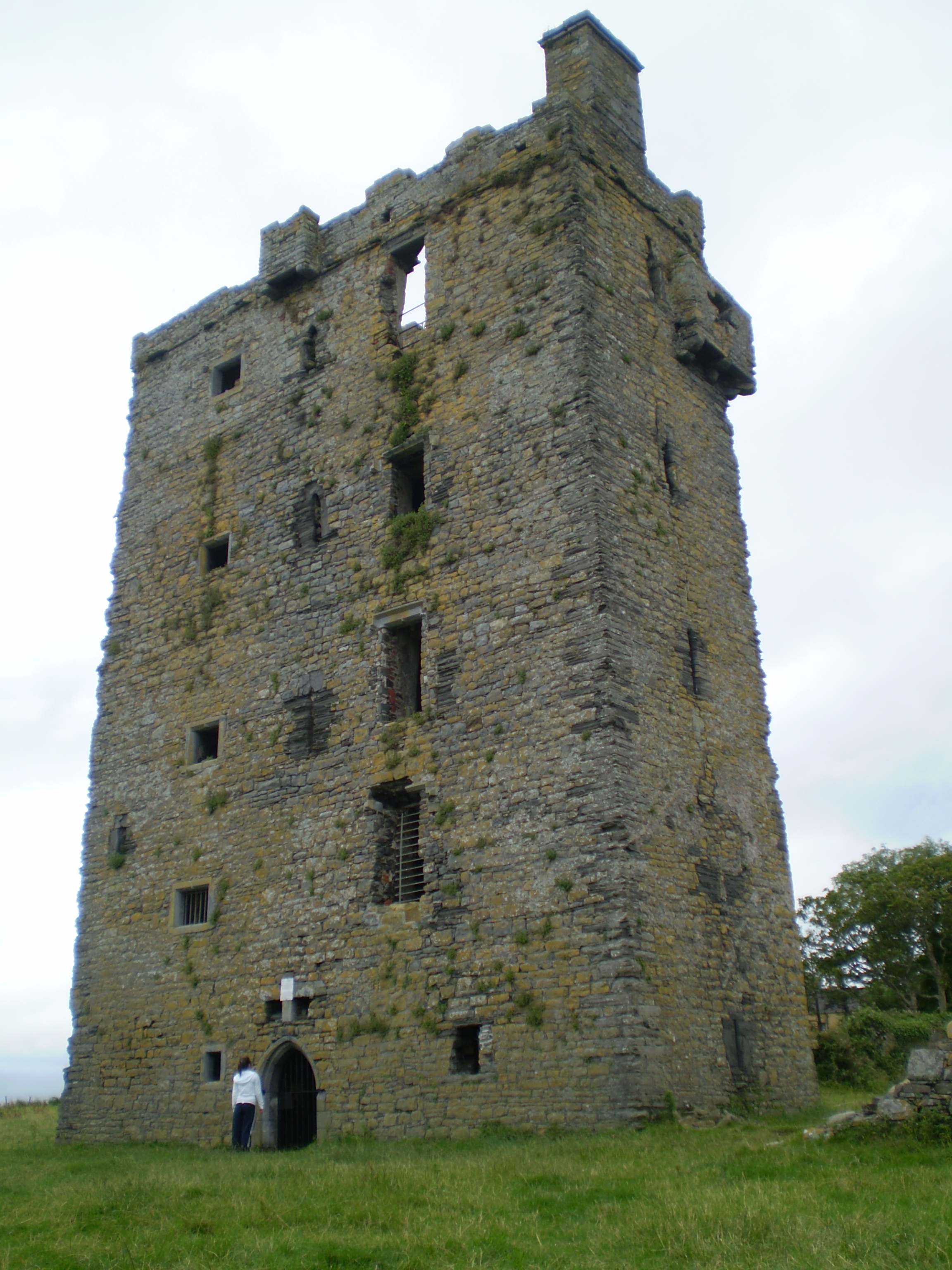 Carrigaholt Castle in County Clare